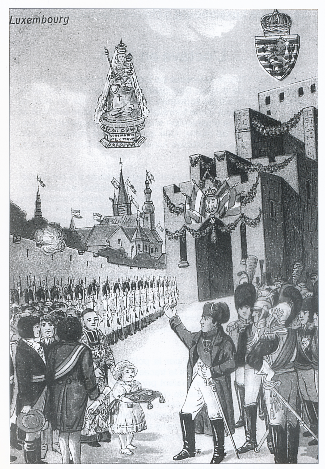 Arrival of Napoleon I in Luxembourg City on October 9 1804. Postcard by Louis Kuschmann (around 1900).